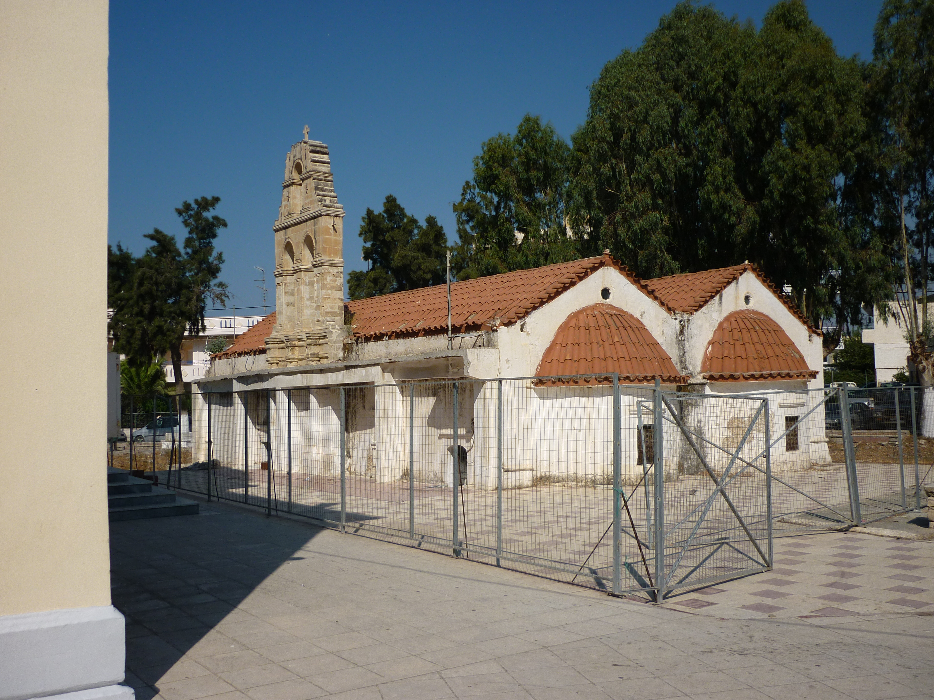 Old Agios Titus church in Tymbaki, Crete, Greece.